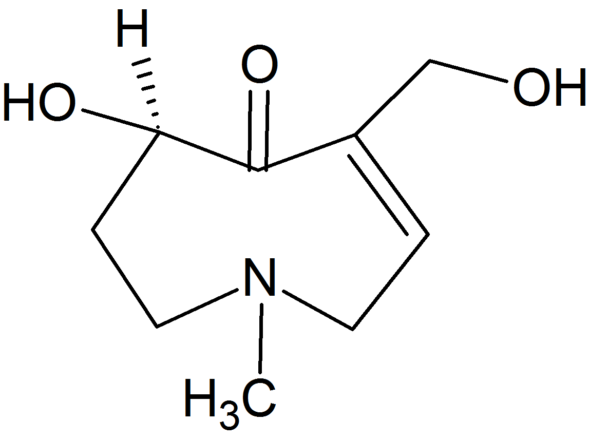 Otonecine PubChem sid = 12542